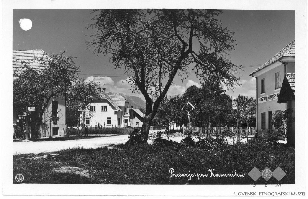 Postcard of Preserje pri Radomljah